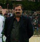 As seen in this photo, Theodhor Arbëri is on the far right, he is the manager.